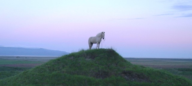 An icelandic horse